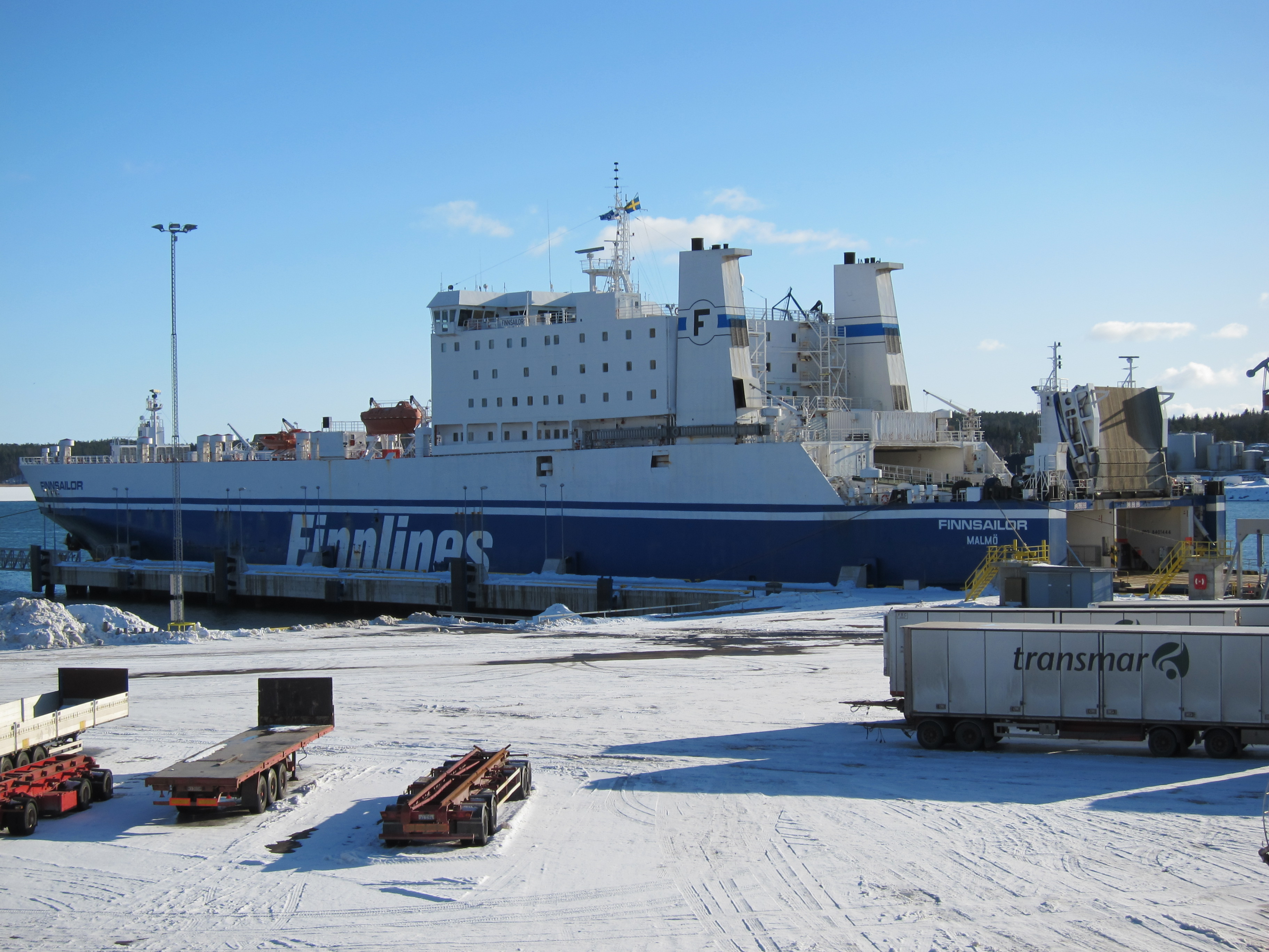 MS Finnsailor at Port of Naantali, Naantali, Finland.